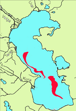 The range of Benthophilus leptocephalus